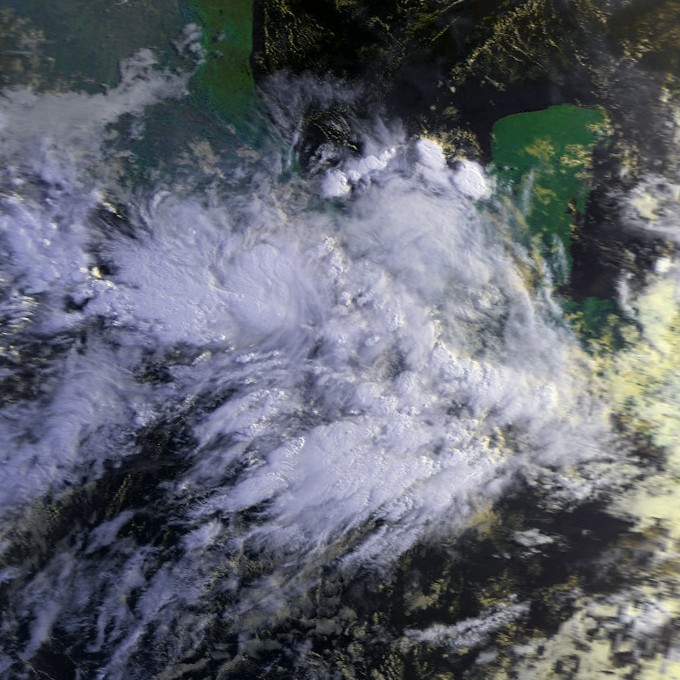 This image shows Tropical Storm Cristina July 3 at 1319 UTC. This image was produced from data from NOAA-12, provided by NOAA.